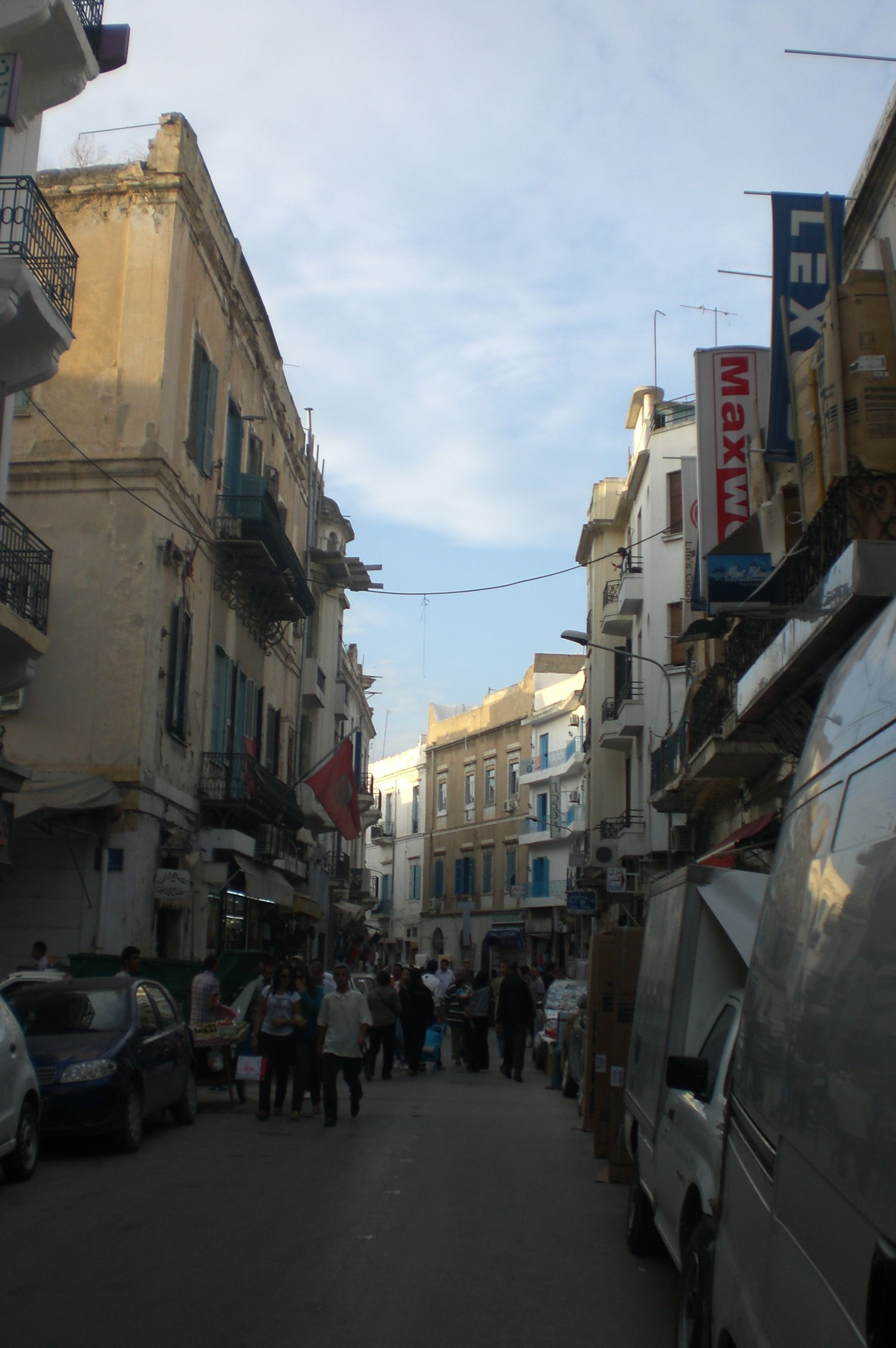 Rue Monji Slim in Tunis